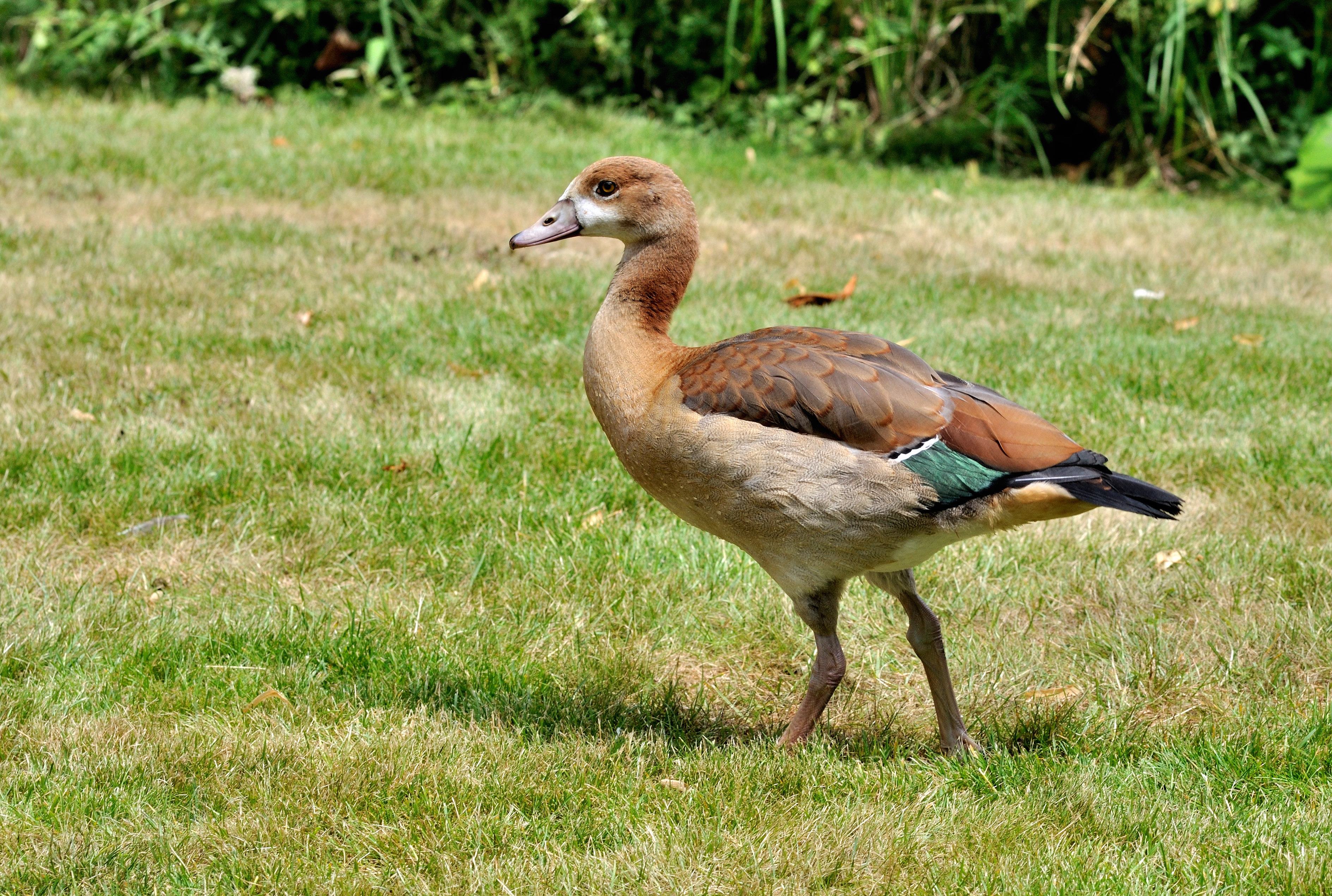 Juvenile Egyptian Goose (Alopochen aegyptiacus) in the Frankfurt Zoo (wild animal).